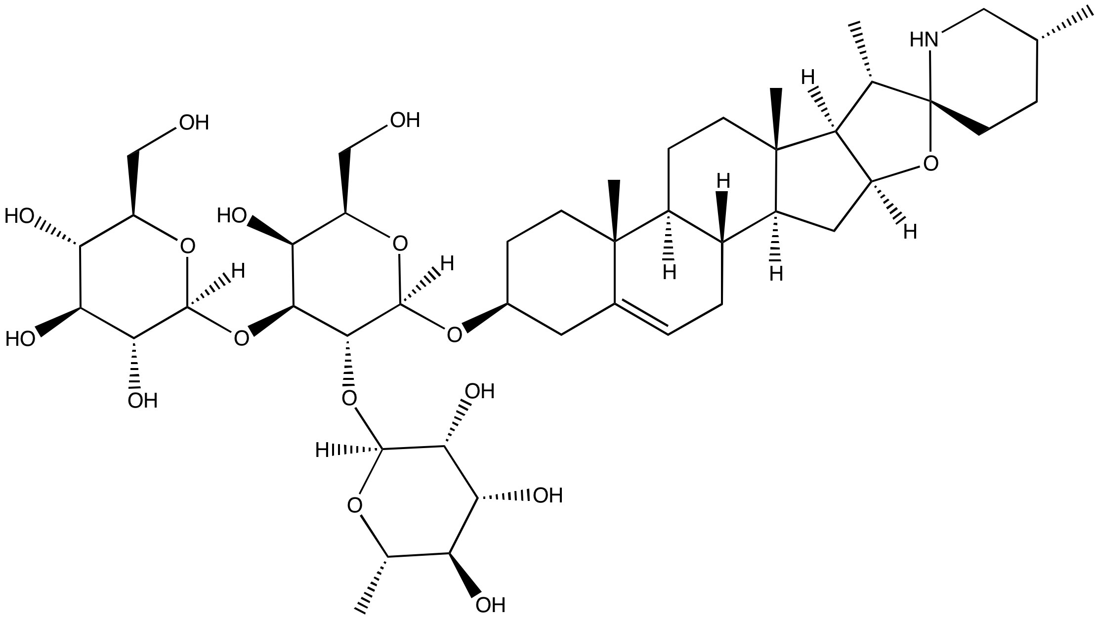 Structure of solasonine